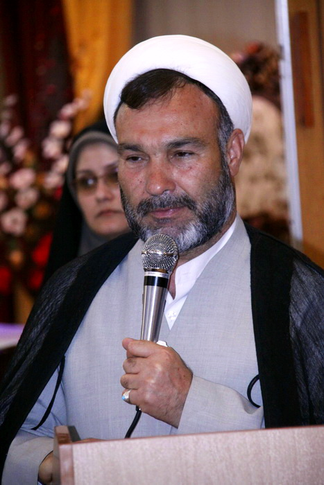 Hossein Sobhani Nia 2